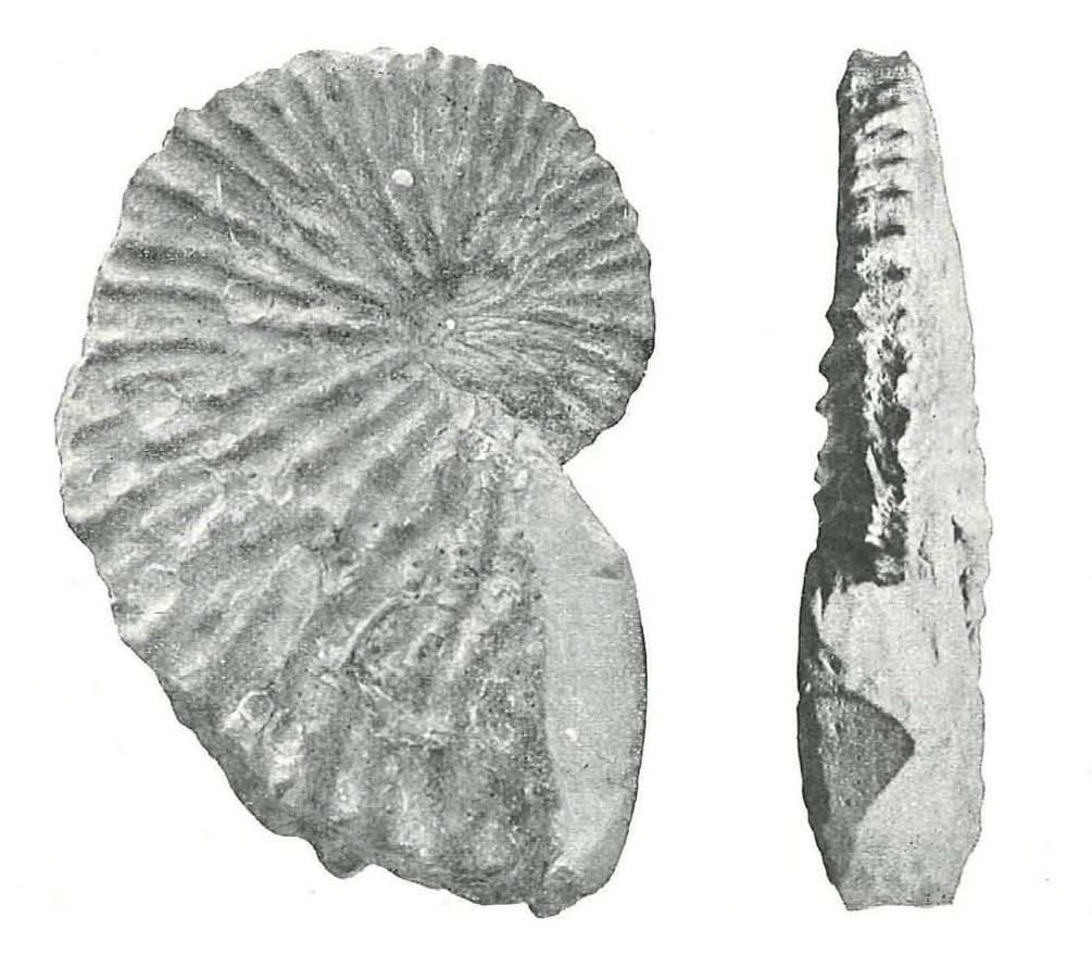 Type specimen of Argonauta joanneus (87 mm diameter at widest point)